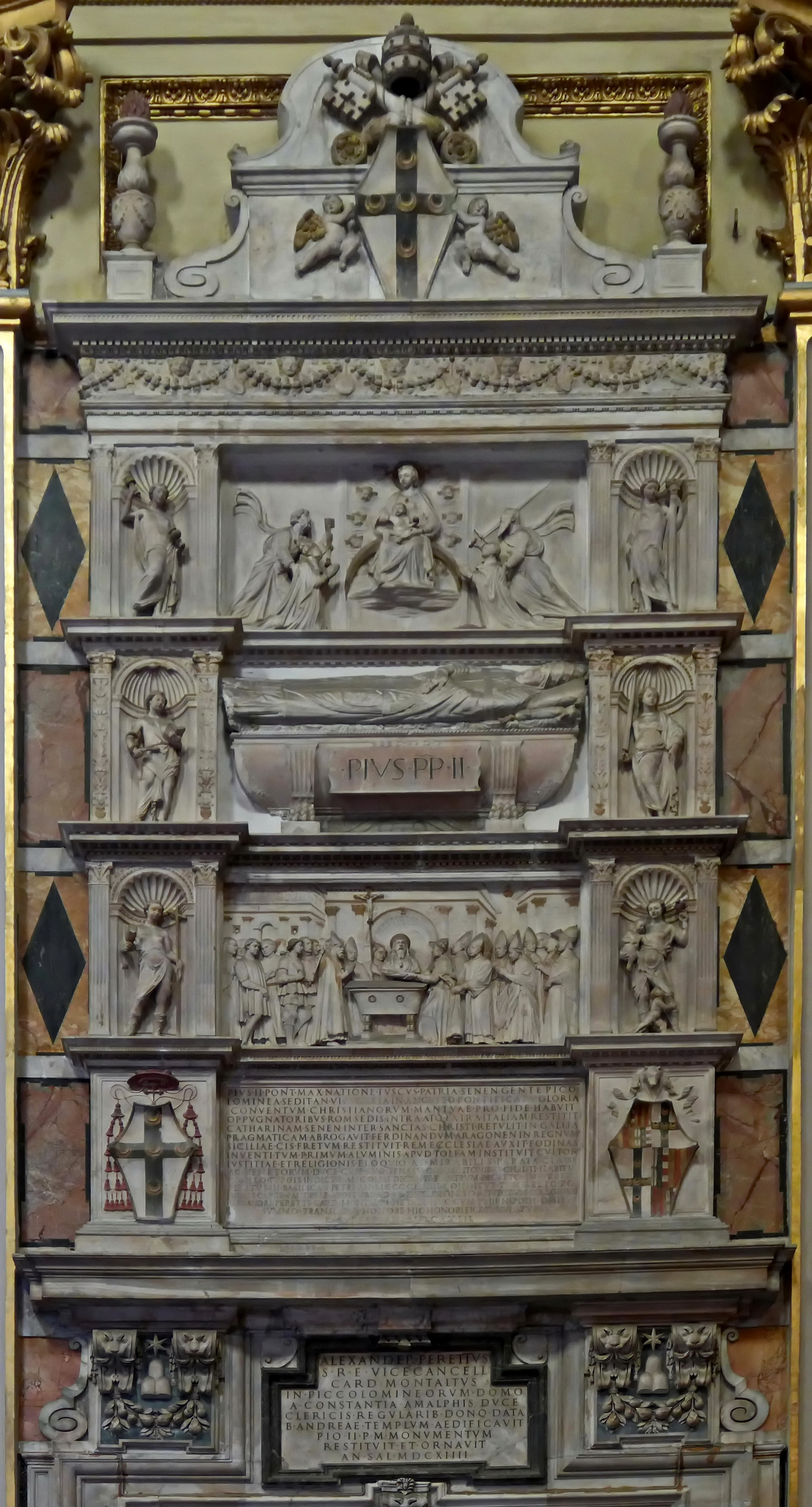 Funeral Monument for Pope Pius II in Sant' Andrea della Valle, Rome